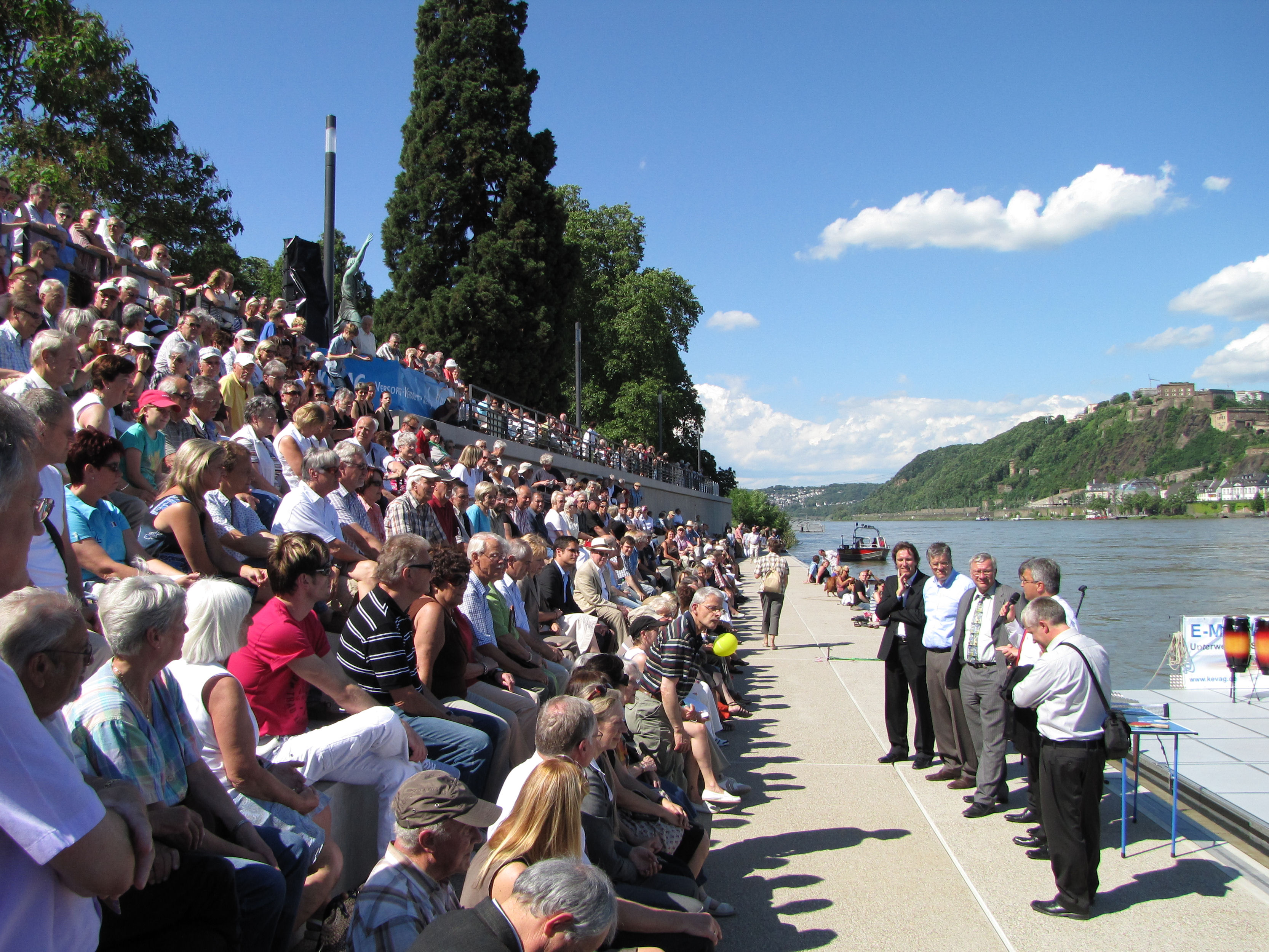 The National Garden Show 2011 in Koblenz